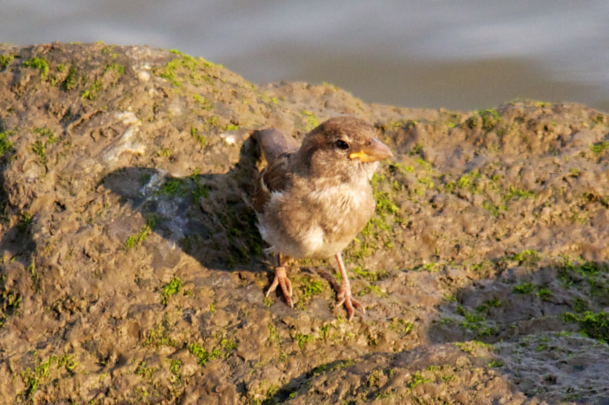 Bird on the east side bank of the Hudson river.